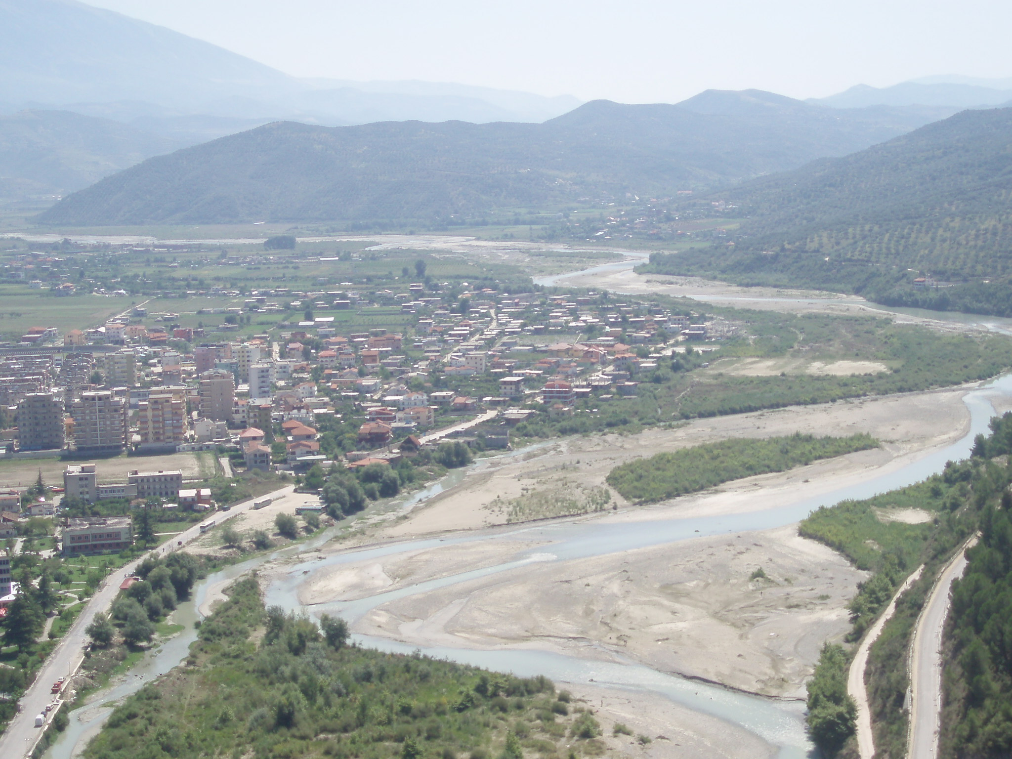 view of the new part of Berat, Albania. Taken from the castle